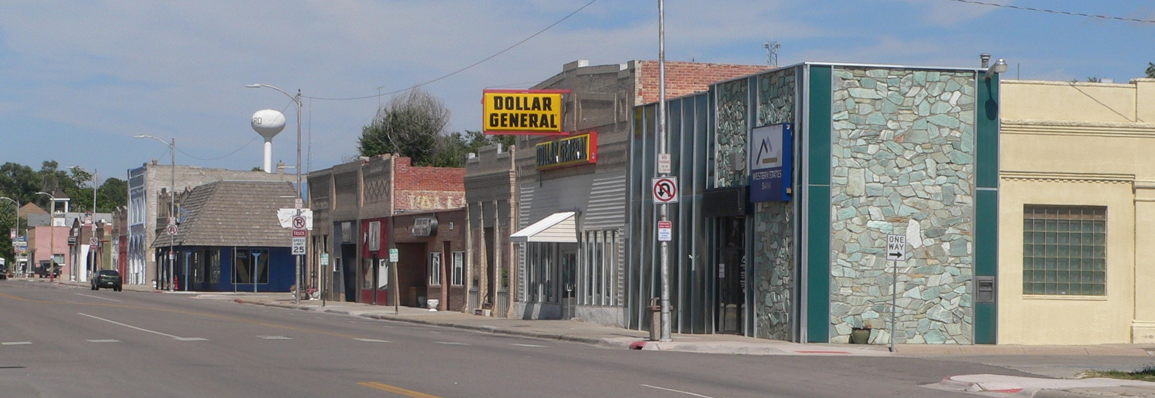 Downtown Bayard, Nebraska: east side of Main Street, looking north from about 3rd Street.